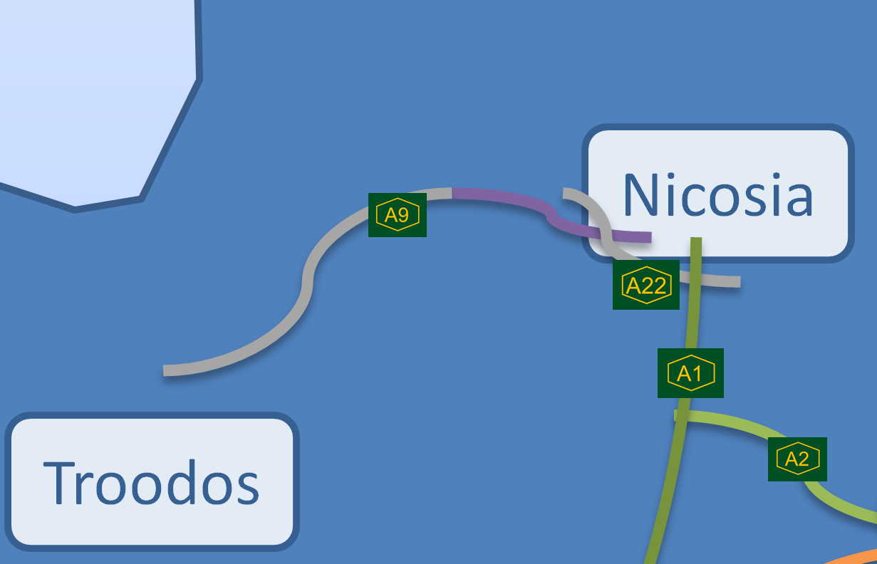 A22 Motorway Cyprus map, created by me TomasNY| 11:08, 17 August 2007 (UTC)